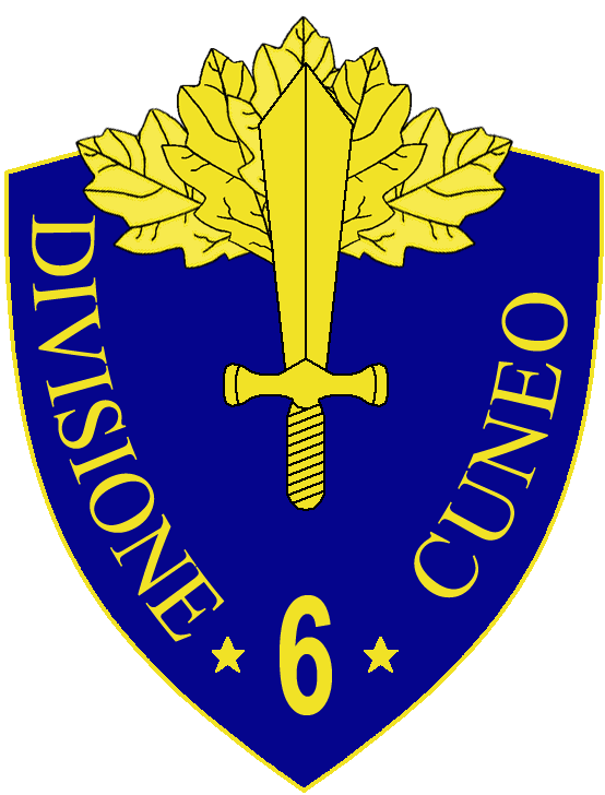 6a Divisione Fanteria Cuneo insignia, Regio Esercito, Italy, WWII